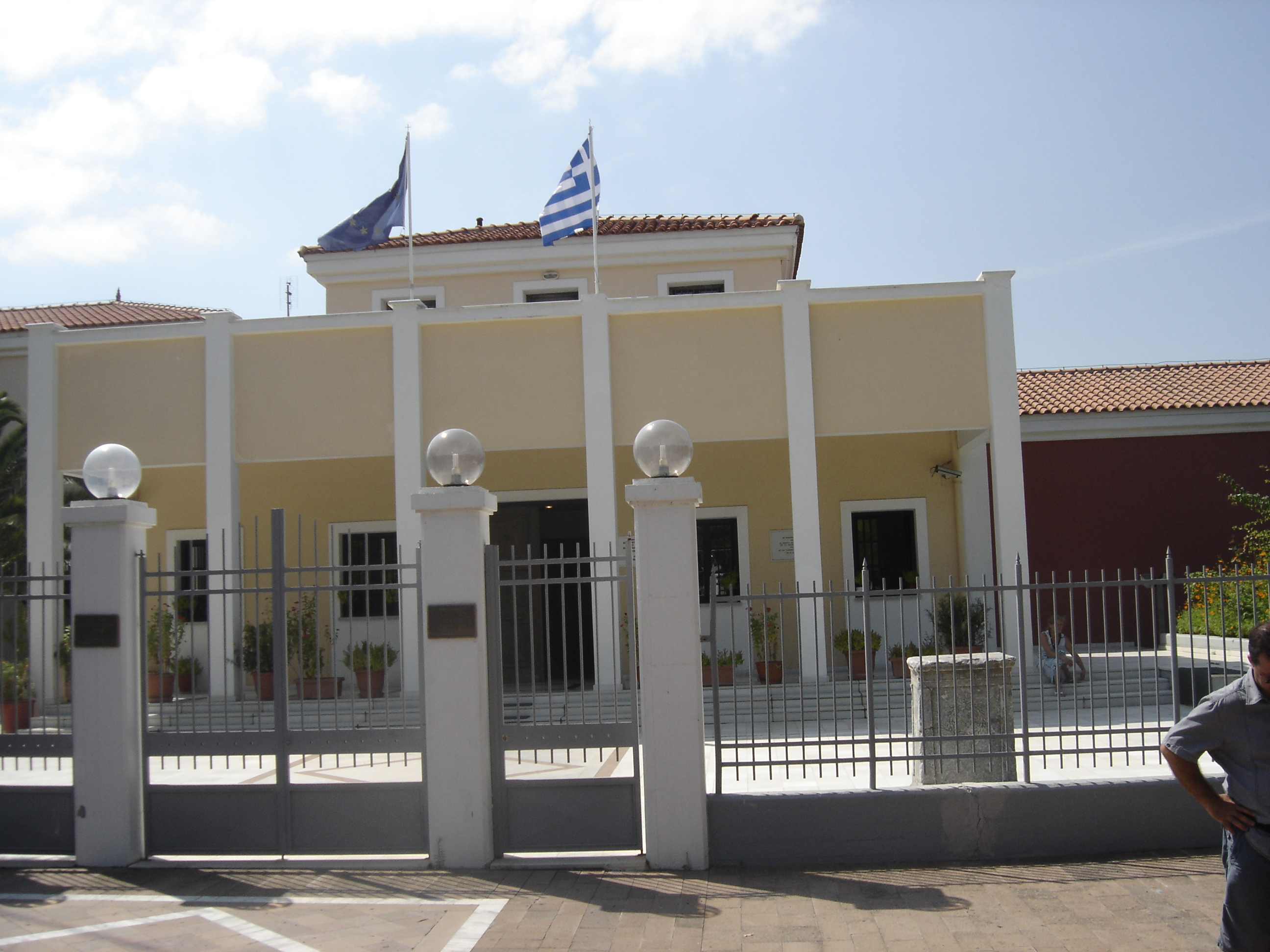 New archaeological museum of Mytilene